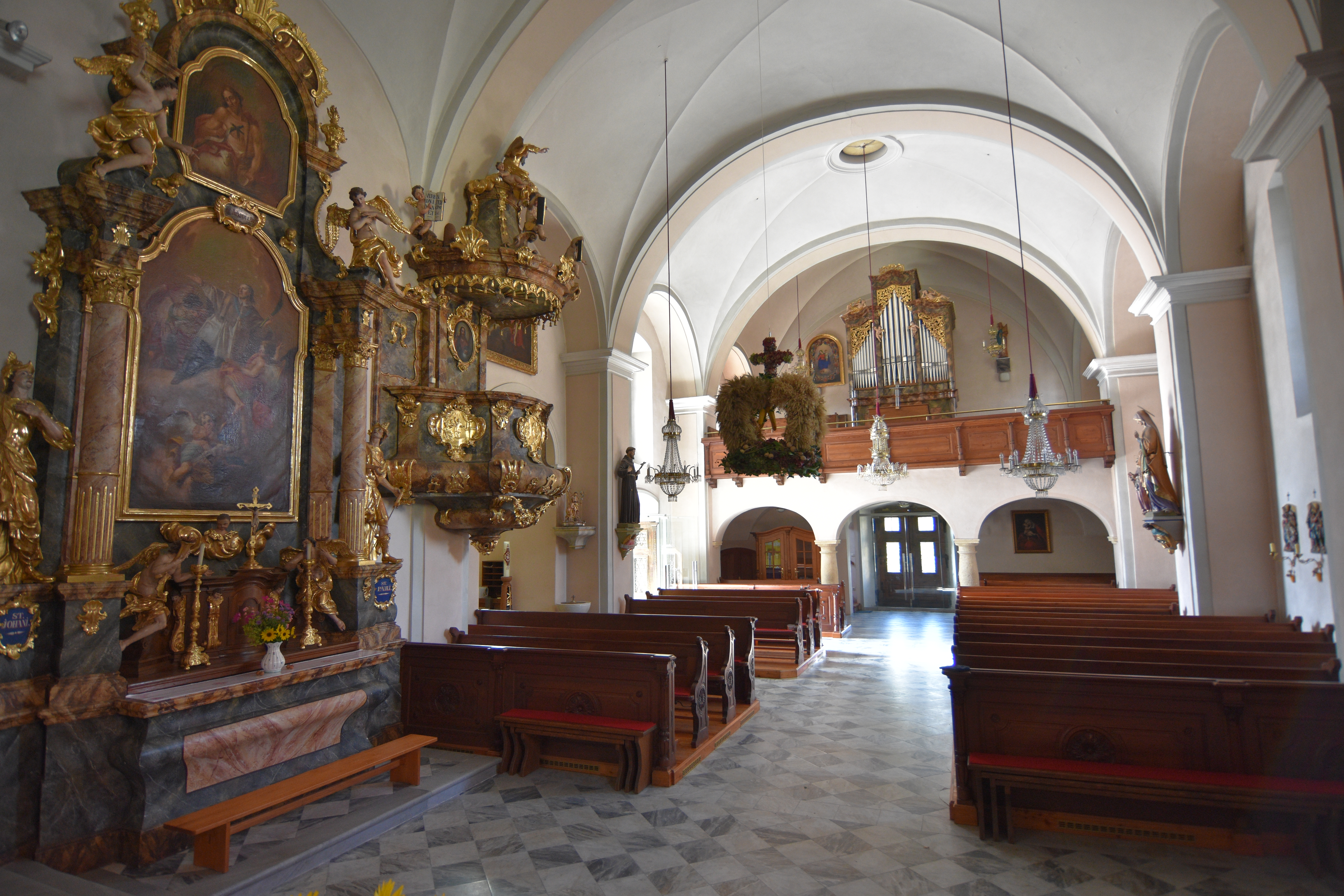 Pfarrkirche Kumberg - Interior